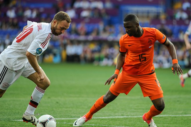 UEFA Euro 2012 match between Netherlands and Denmark that took place in Kharkiv. Final result was 0:1 (Krohn-Delhi)